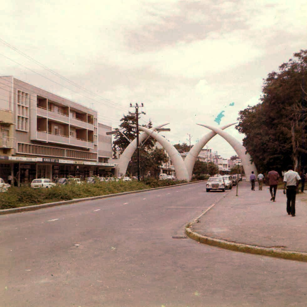 Elephant tusks on Kilindini road (actually Moï Avenue)